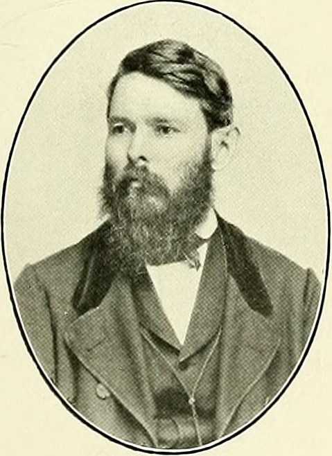 Portrait of the German botanist Julius Milde